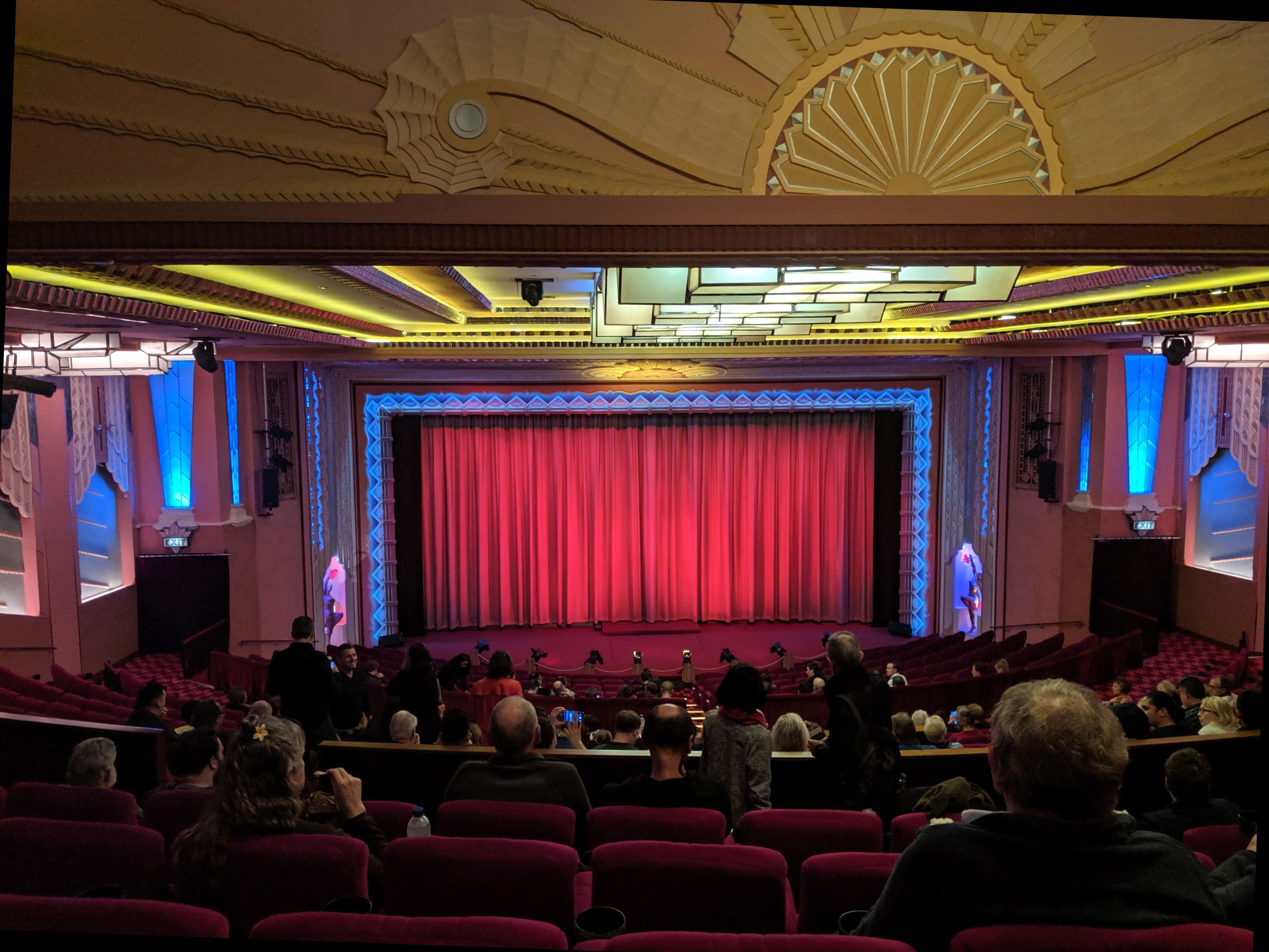 View from inside Hayden Orpheum Picture Palace